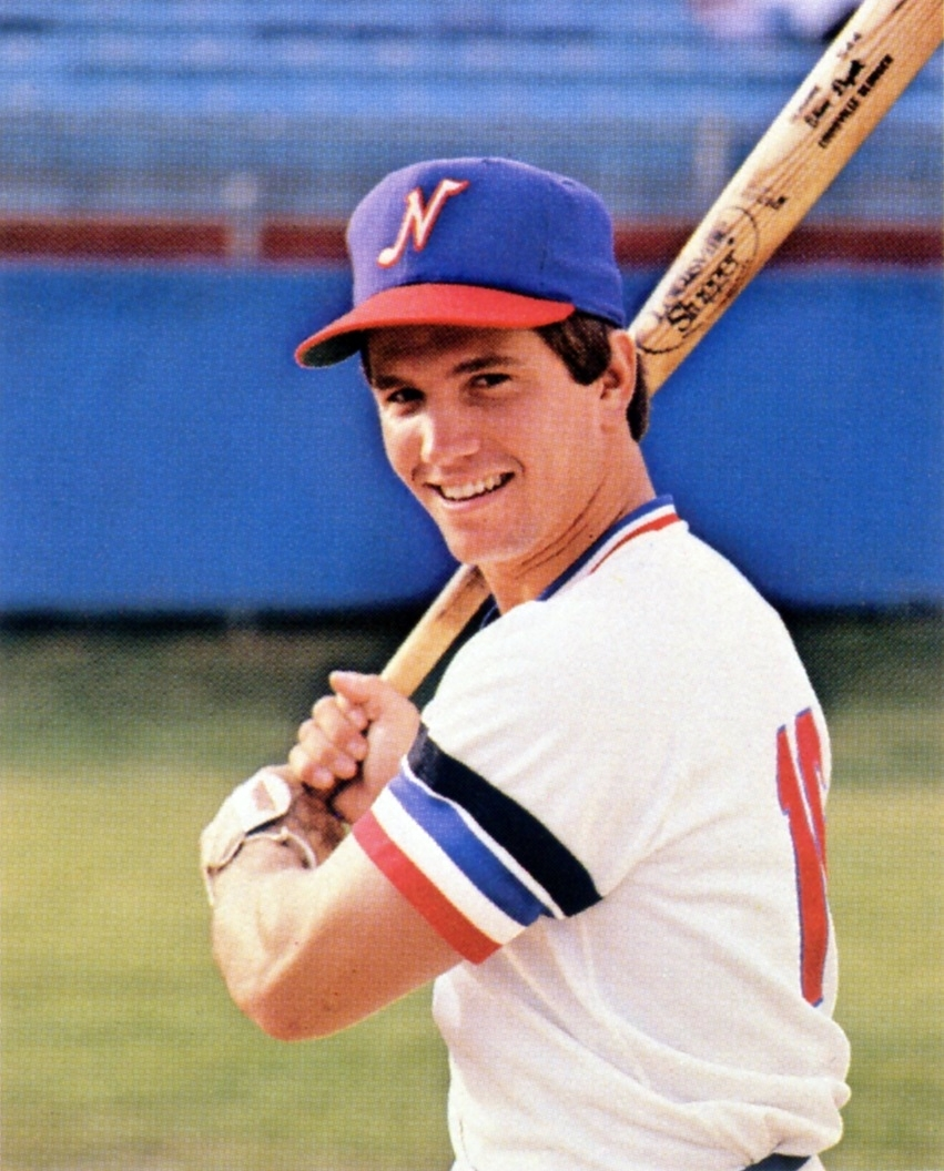 Catcher Brian Dayett of the 1980 Nashville Sounds Minor League Baseball team of the Southern League